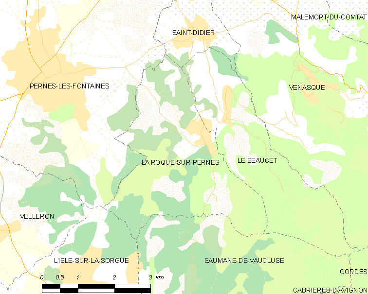 Map of French municipality La Roque-sur-Pernes